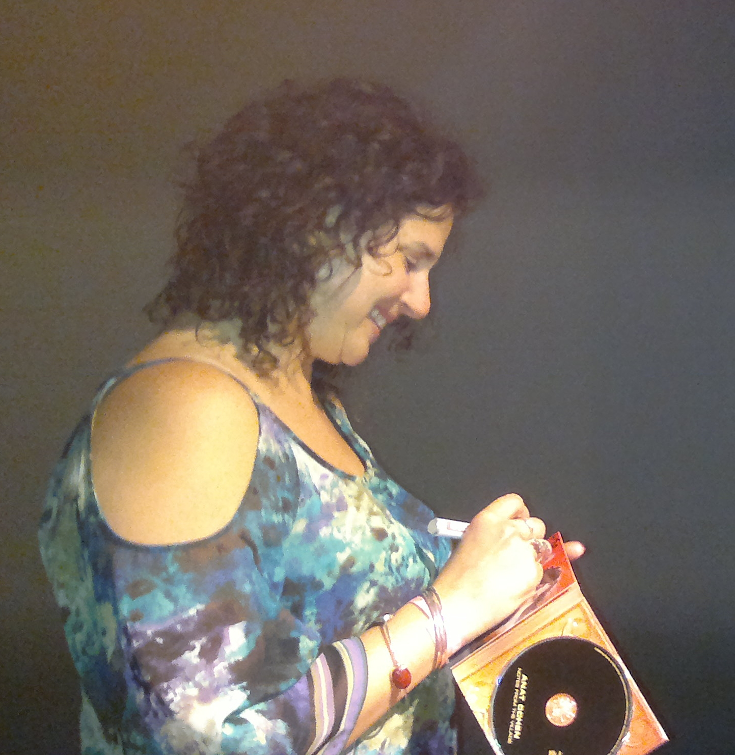 Anat Cohen signing CD at North Sea Jazz Festival 2013